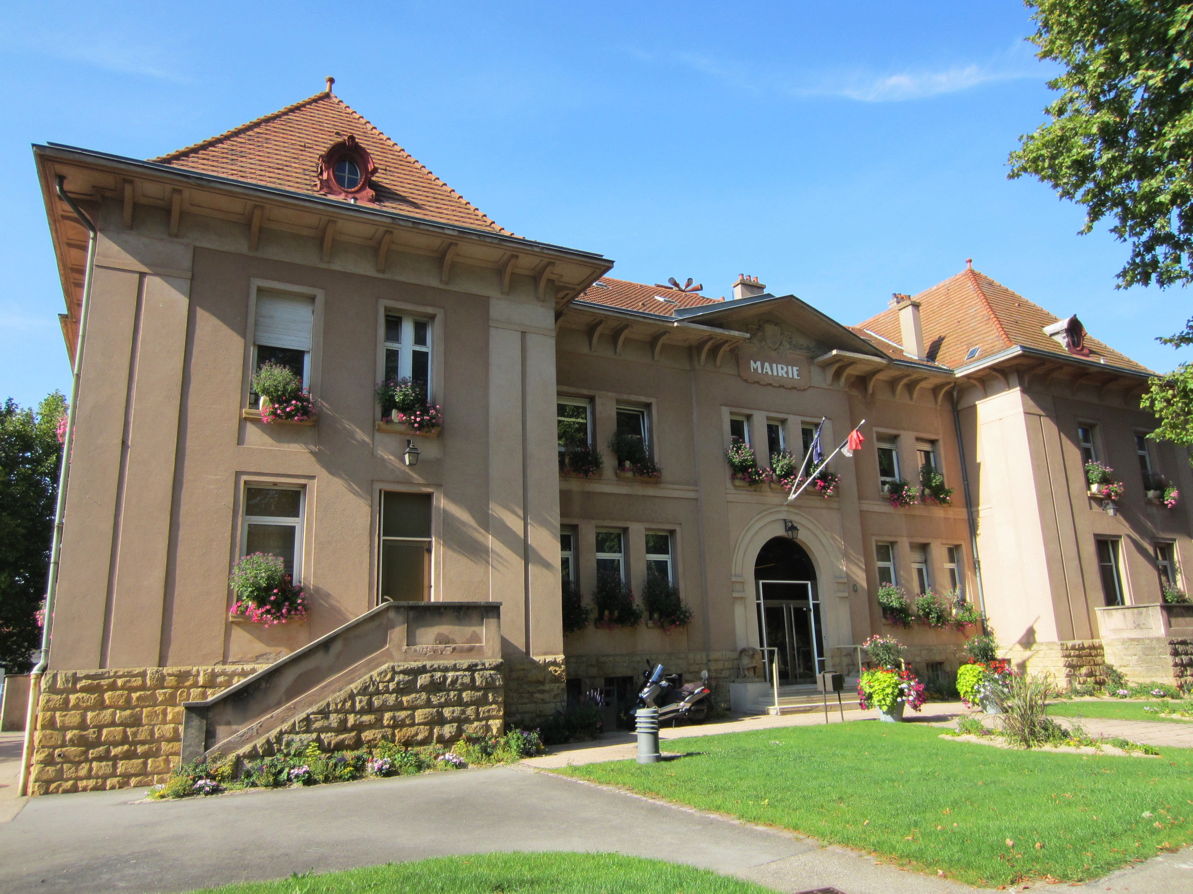 Description mairie Ban St Martin Date2 September 2011Sourcemon appareil photoAuthorAimelaimePermission(Reusing this file) mairie Ban St Martin